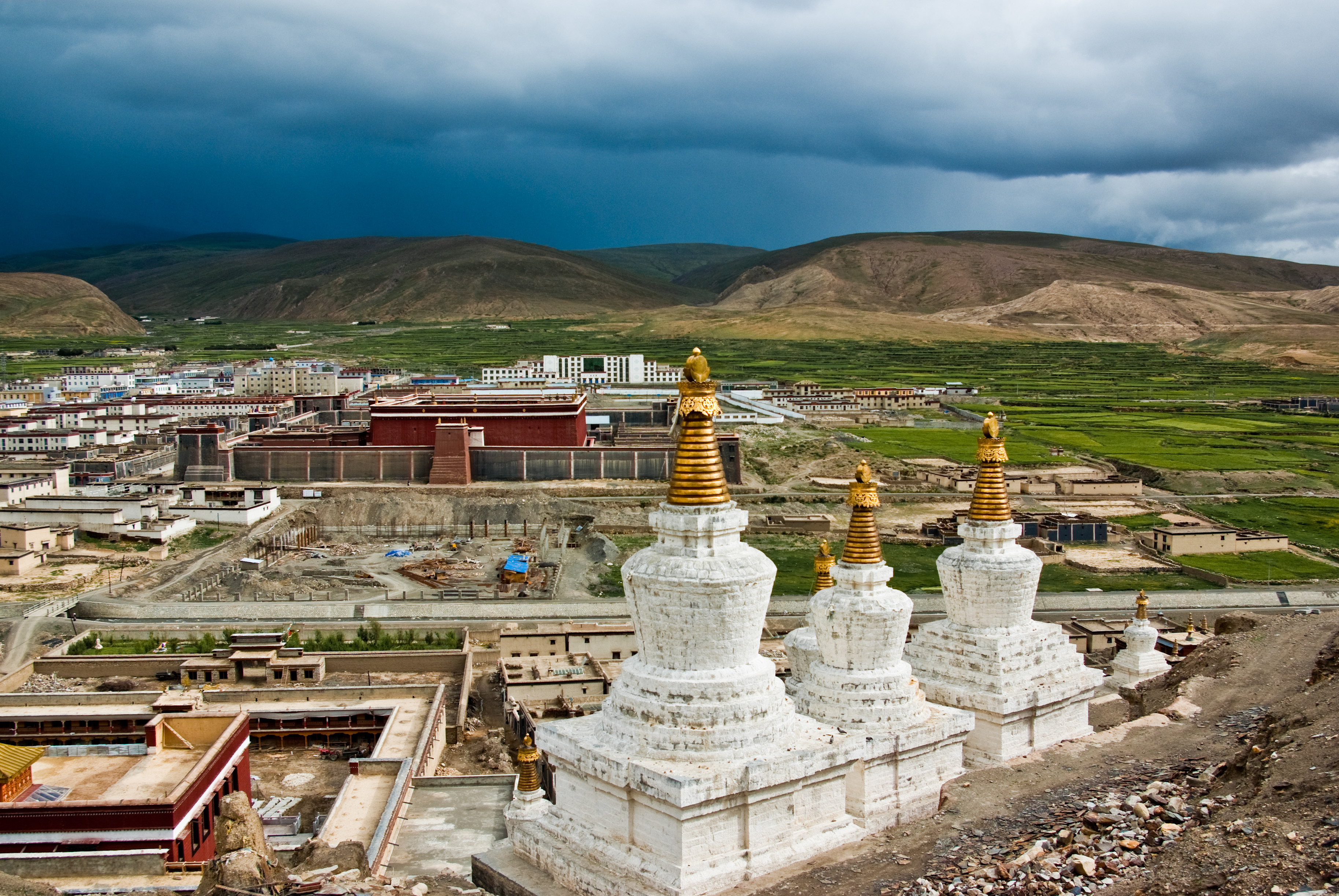 Ssakya monastery (tibet)